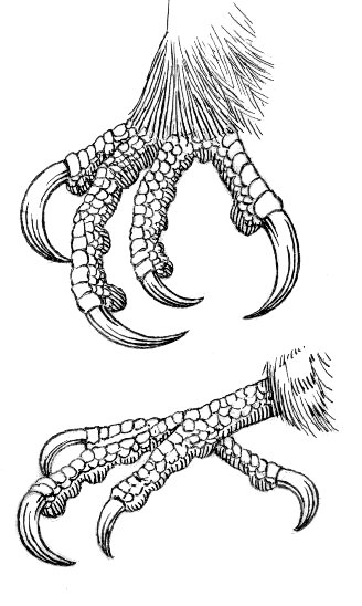 line art drawing of a claw.